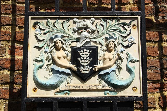 By land and sea. Boston civic arms on the gates of St.Mary's Guildhall 996621 the motto means 'by land and sea'